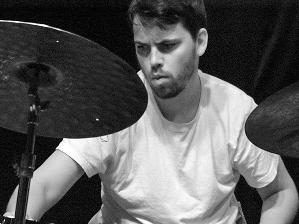 Øyvind Skarbø in Aarhus, Denmark 2013